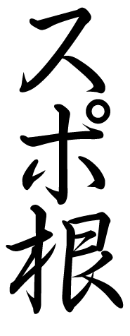 The kanji for "spokon" (スポ根). Font used: Epson Gyosho.